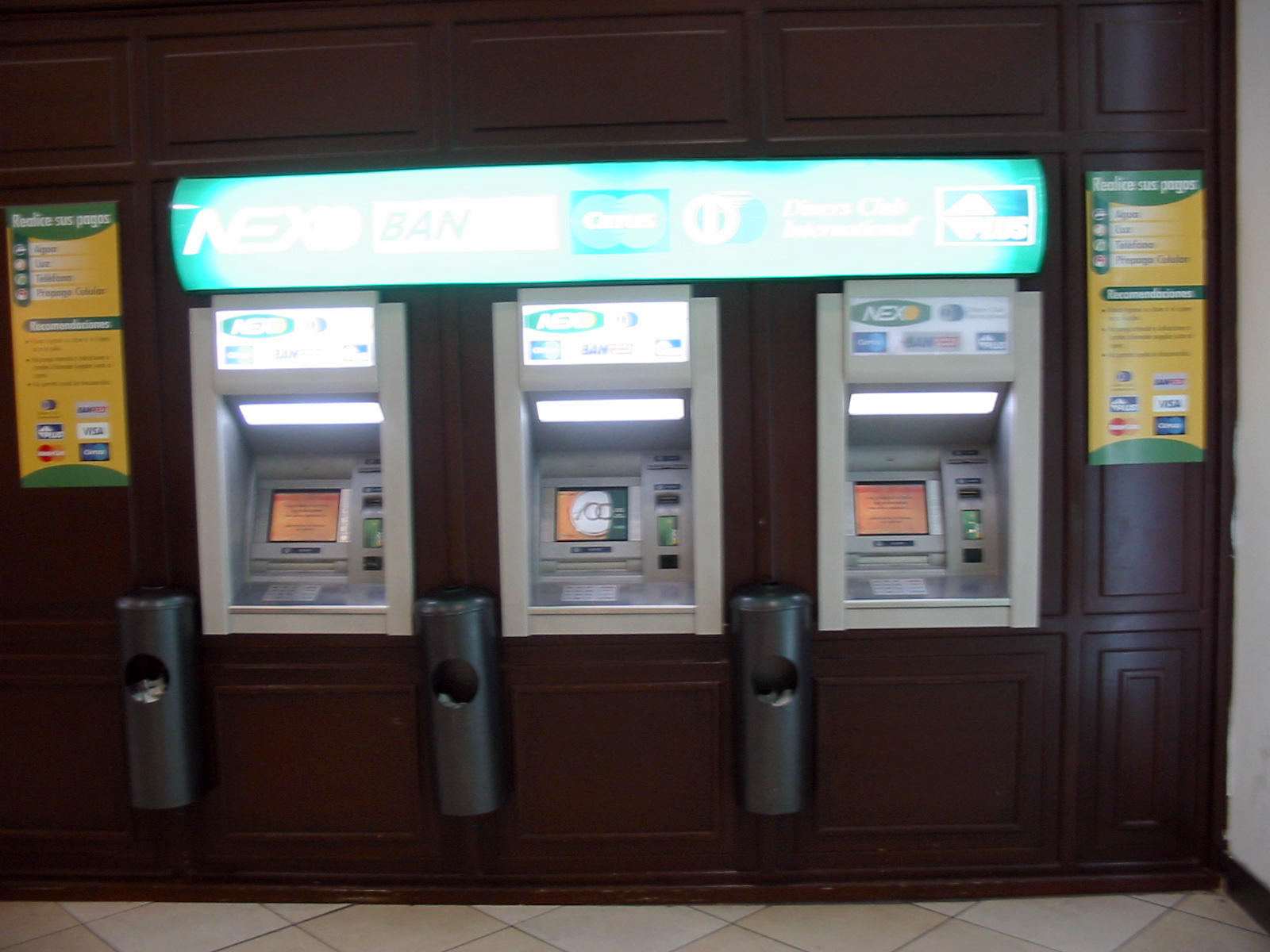 Wincor-Nixdorf 2050 ATM (Automatic Teller Machine) - Rear Load.